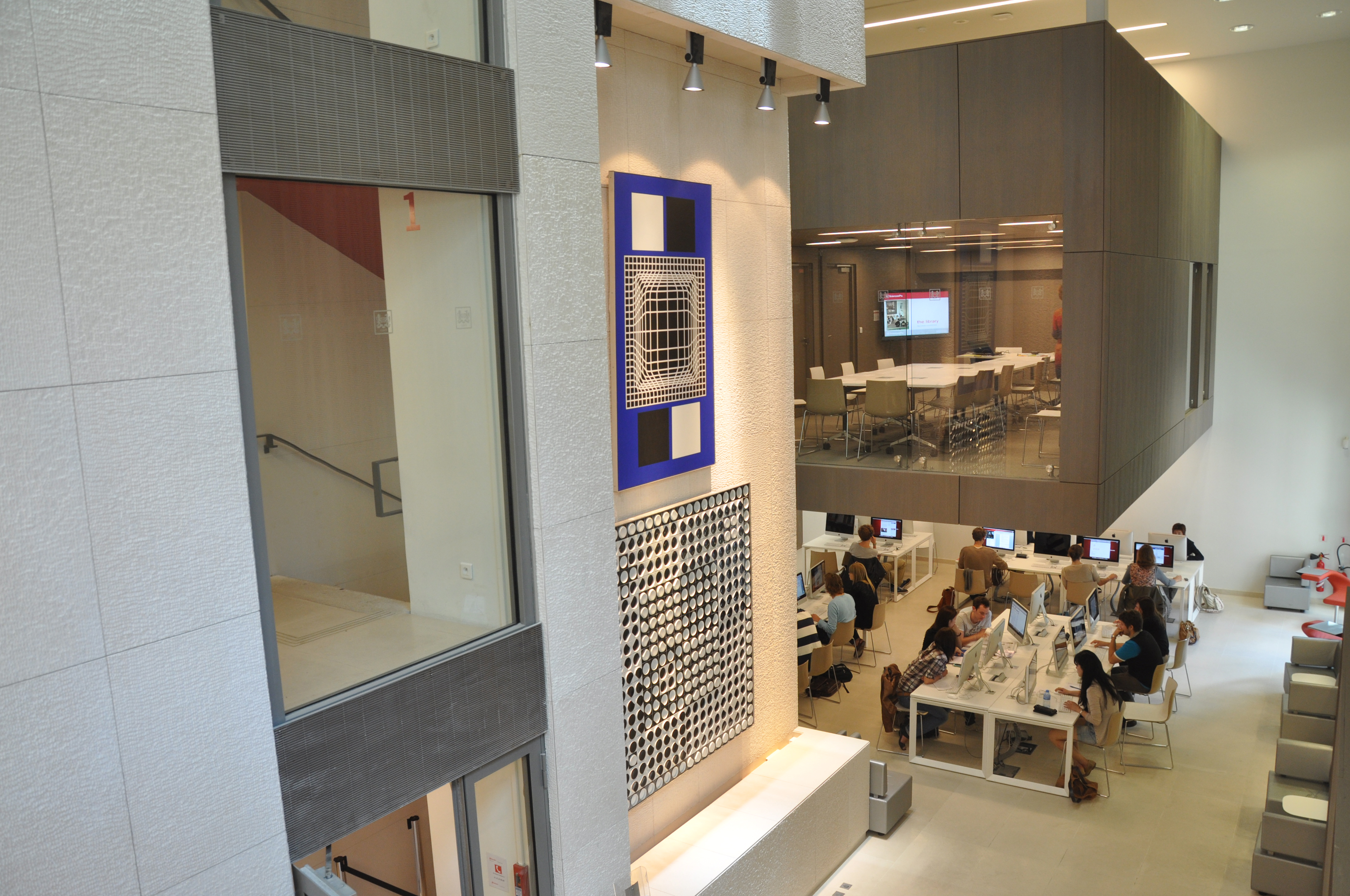 reading rooms 27, rue Saint Guillaume